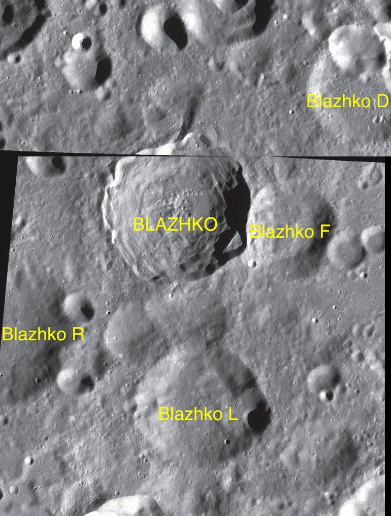 Parts of the charts LAC-34, LAC-52 used for the presentation